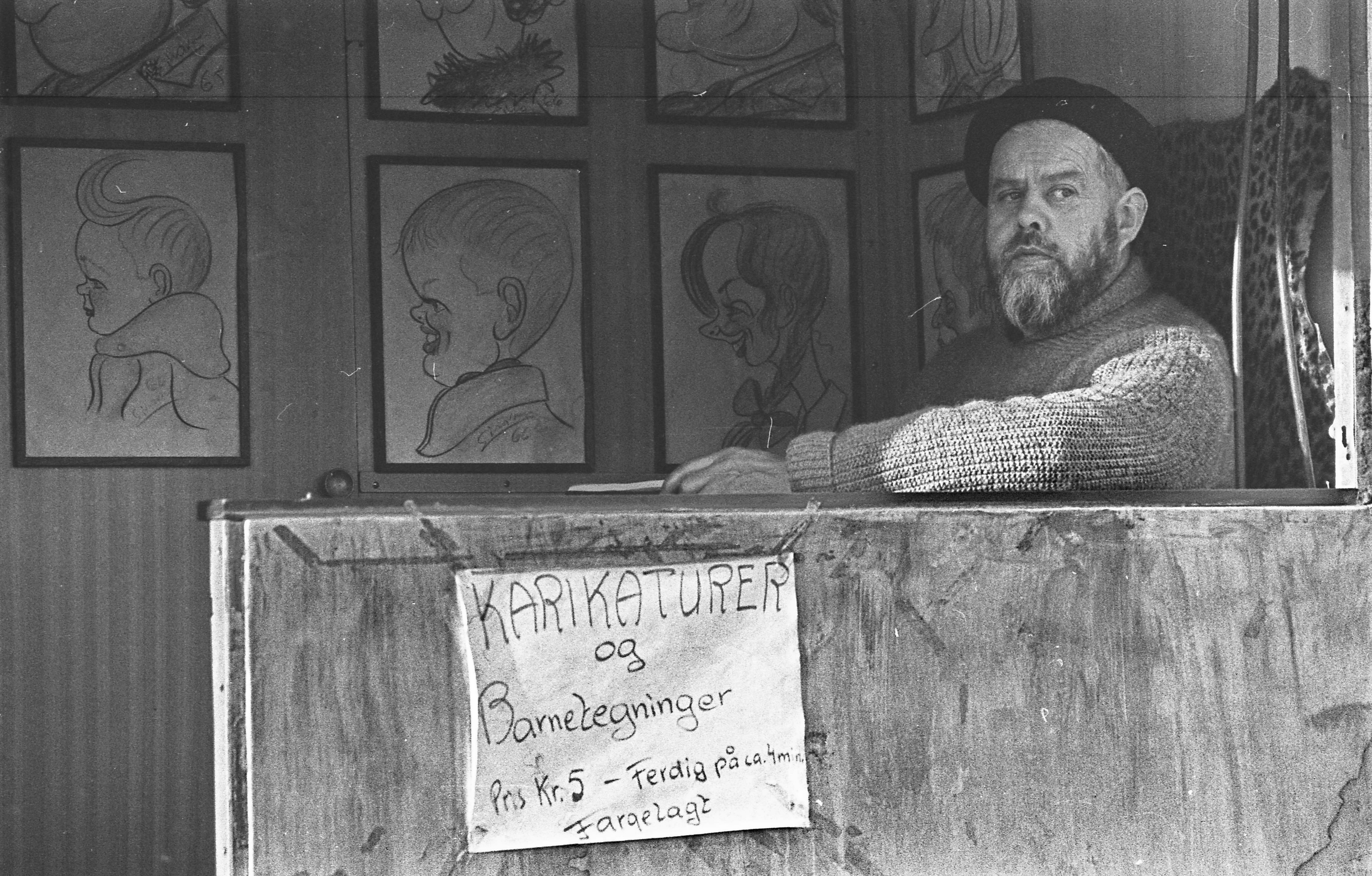 Einarson